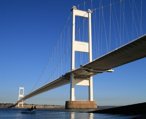 The Severn Bridge spans the River Severn between South Gloucestershire, England, and Monmouthshire in South Wales